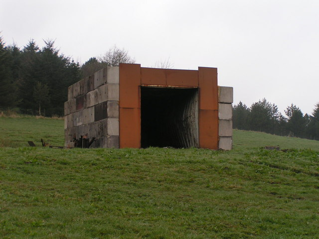 Bunker, Health and Safety Laboratory. Built from concrete blocks and presumably used for experiments into explosions. for more information on the Health and Safety Laboratory.